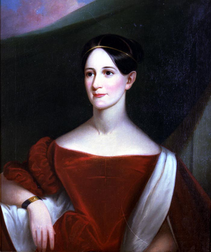 Sarah Yorke Jackson, first lady of the United States from 1834 to 1837, during the presidential tenure of her father-in-law, President Andrew Jackson